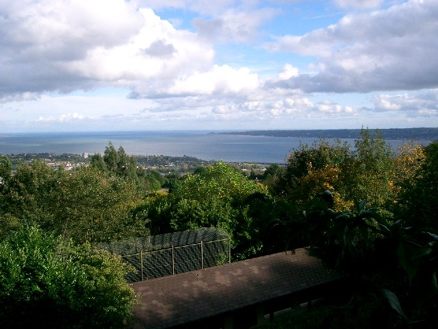 Belfast Lough. Looking eastwards from a path above Belfast Zoo.